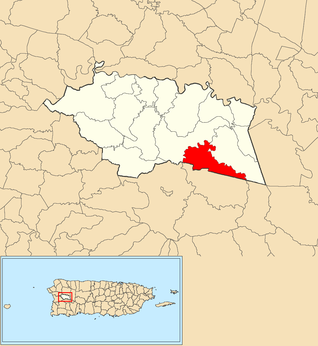 Bucarabones, Las Marías, Puerto Rico locator map